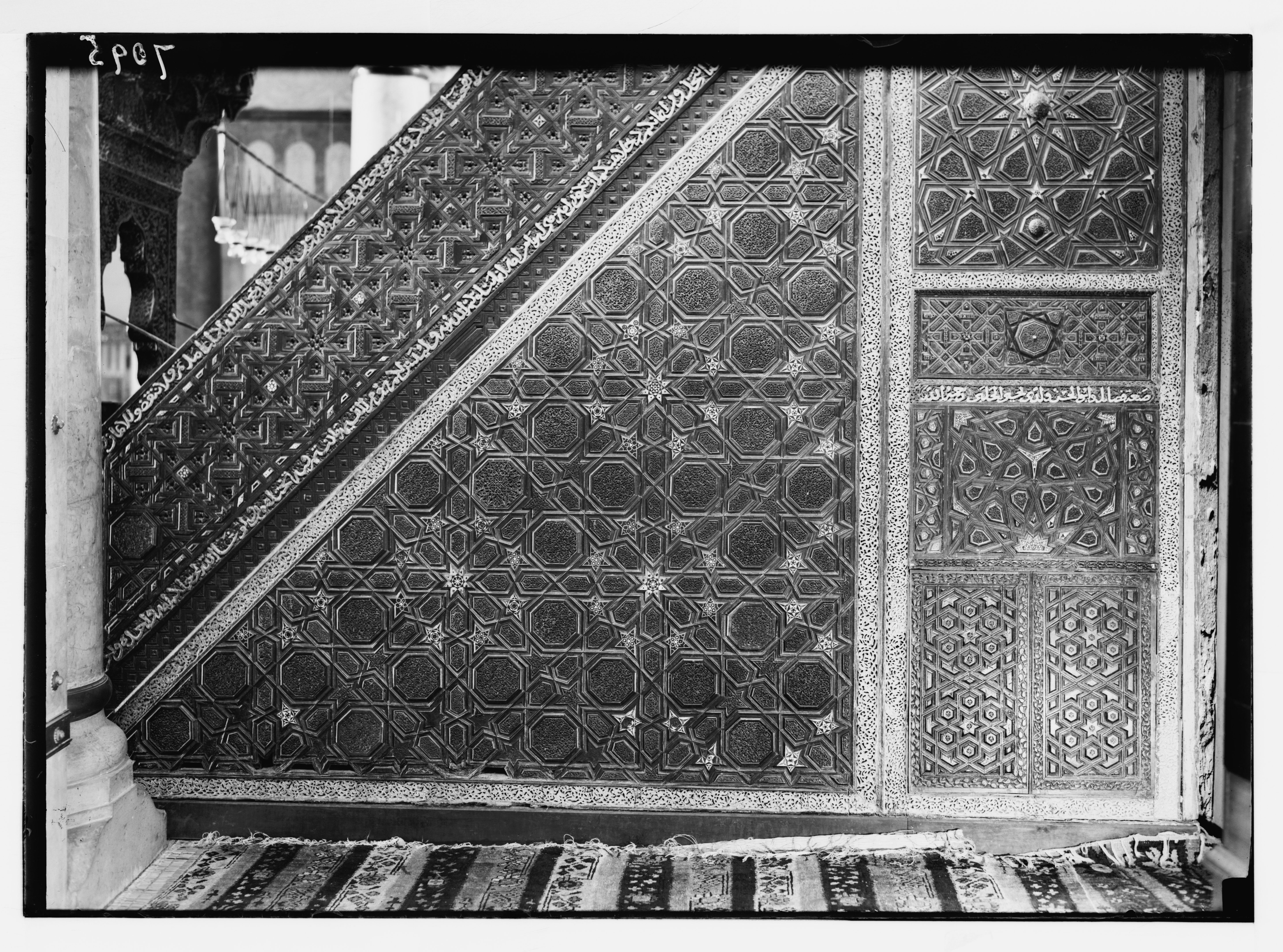 Title: El Aksa [i.e., al-Aqsa] Mosque. Cedar pulpit. Close up of carving Abstract/medium: G. Eric and Edith Matson Photograph Collection Physical description: 1 negative